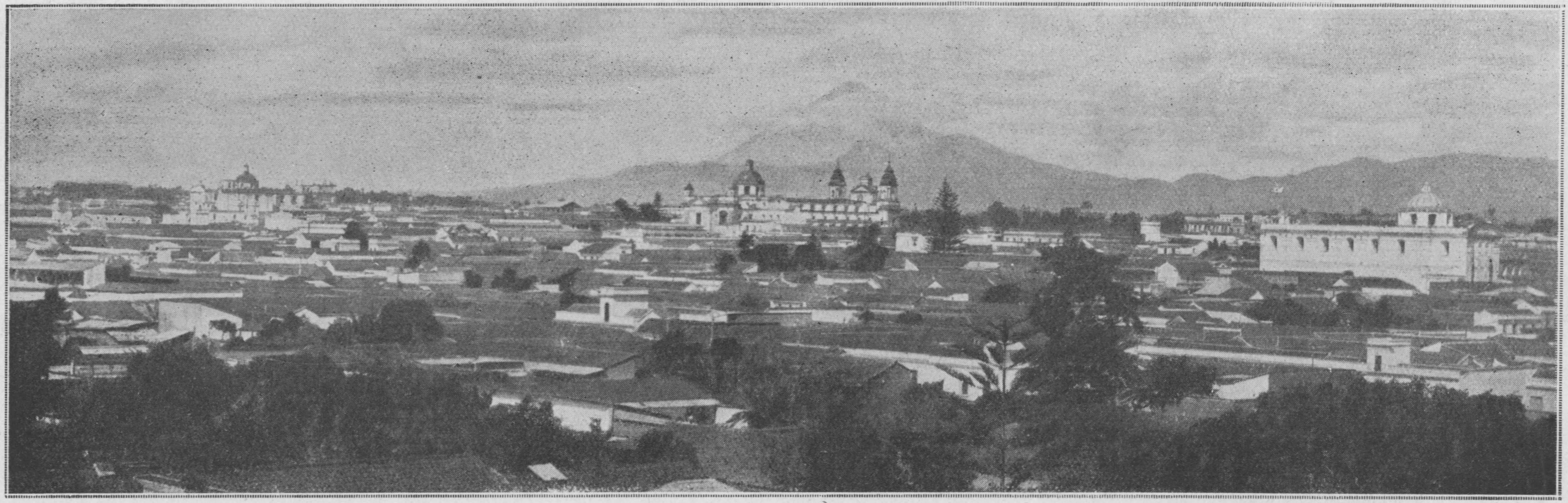 Scan of L'ILLUSTRATION No 3906 12 Janvier 1918. General view of Guatemala city.